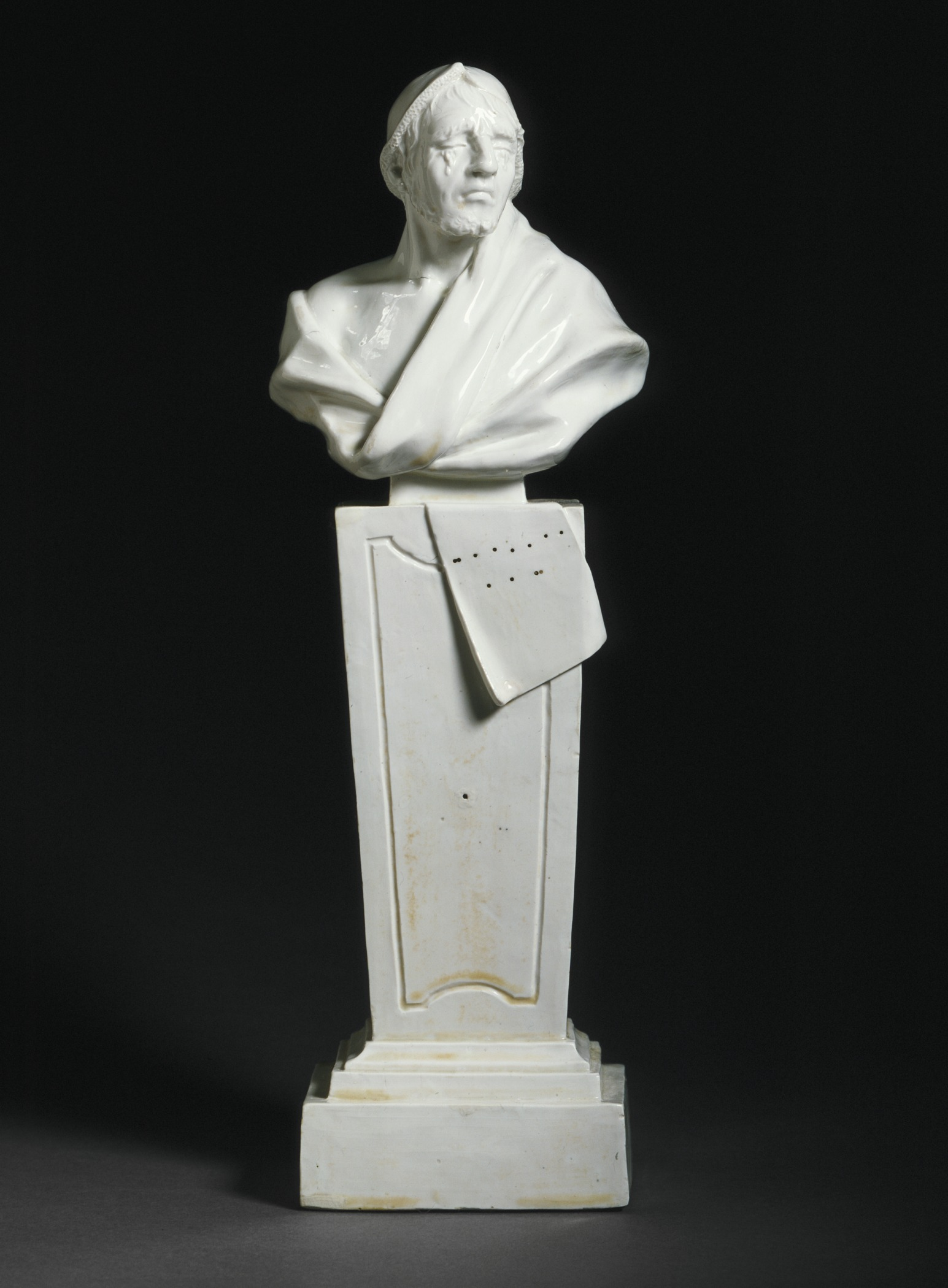 Austria, circa 1757 Sculpture Porcelain, white glaze 13 1/4 x 4 3/4 x 3 1/2 in. (33.66 x 12.07 x 8.89 cm) Decorative Arts Council Curatorial Acquisitions Discretionary Fund (M.83.4) Decorative Arts and Design